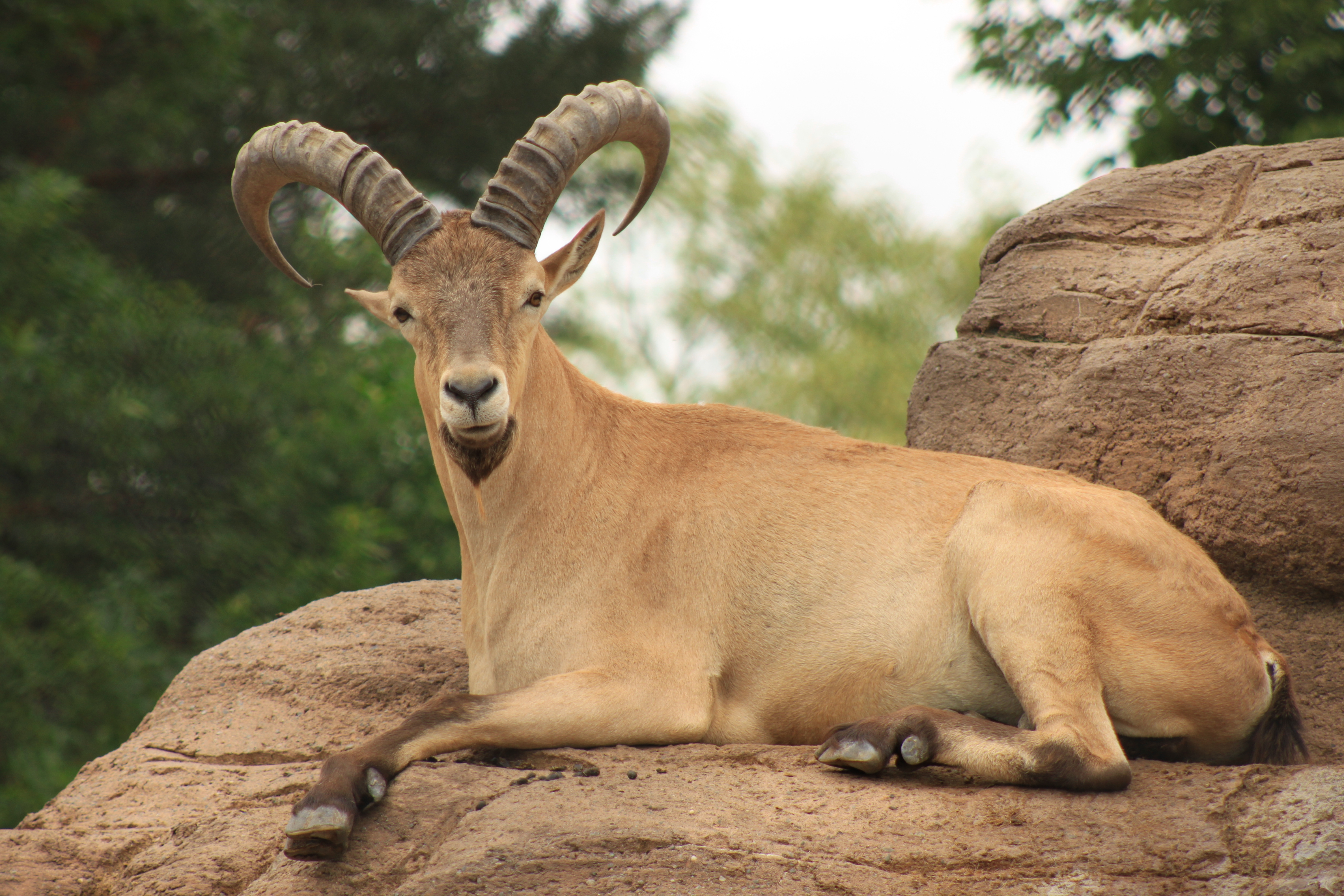 Photo of West Caucasian Tur taken at Toronto Zoo